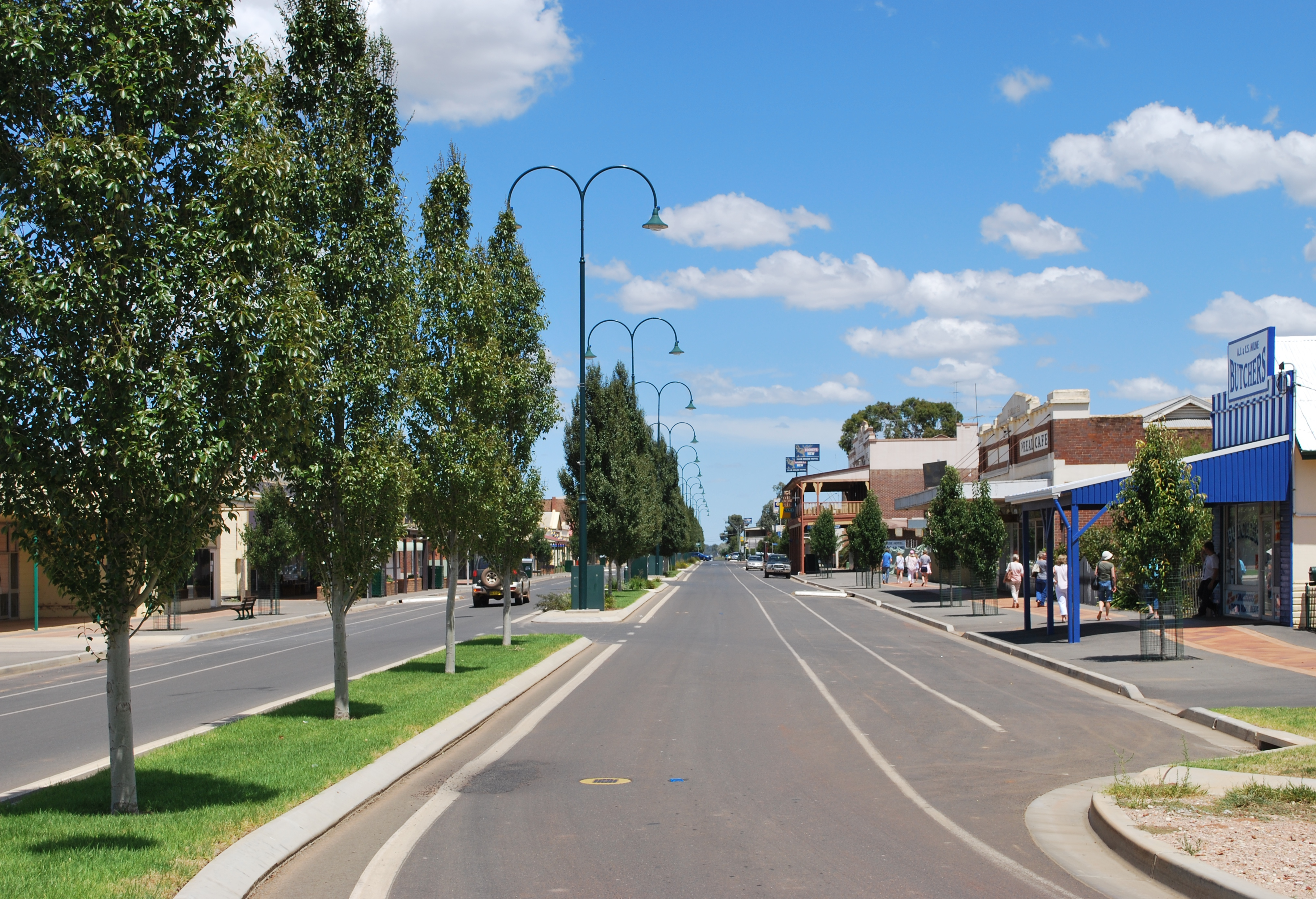 High Street (Kidman Way) in Hillston, New South Wales